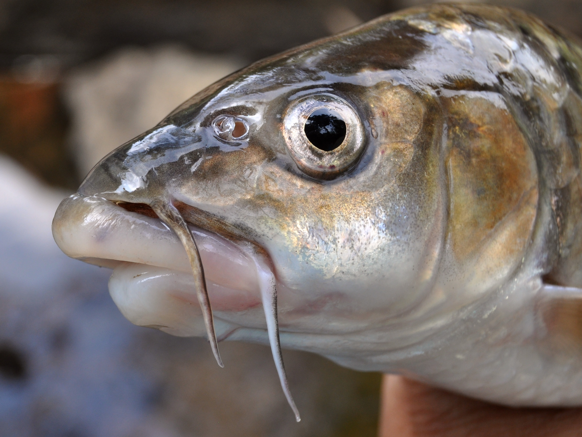 Tor tambroides, 267 mm SL (standard length); head close up. From Jambi, Sumatra, Indonesia.